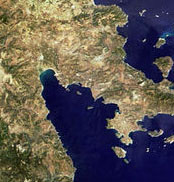 Argolic Gulf, Greece